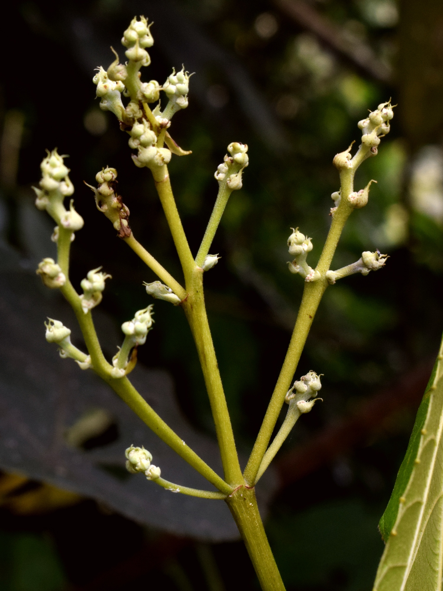 Macaranga triloba; opened staminate panicle. From Bogor, West Java, Indonesia.